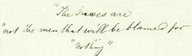 The Goulston Street graffiti (D.C. Halse´s Version - "The Juwes are not the men That Will be Blamed for nothing"). The pic id PD beacuse it is took in 1888, when the graffiti was copyied, and more than 100 years passed since the creation of both.